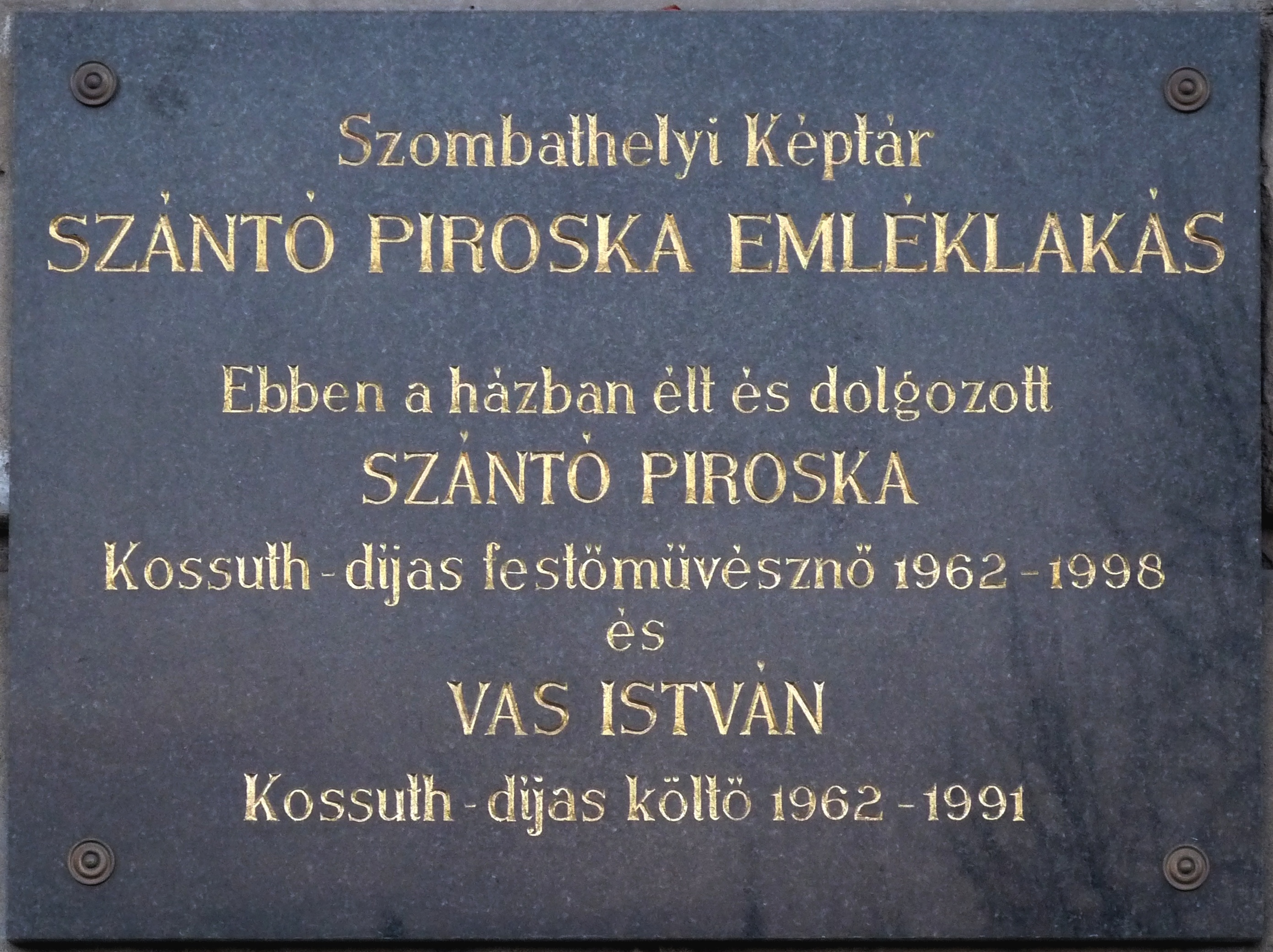 Commemorative plaque of Piroska Szántó and István Vas in Budapest District I, Várkert Quay No 17